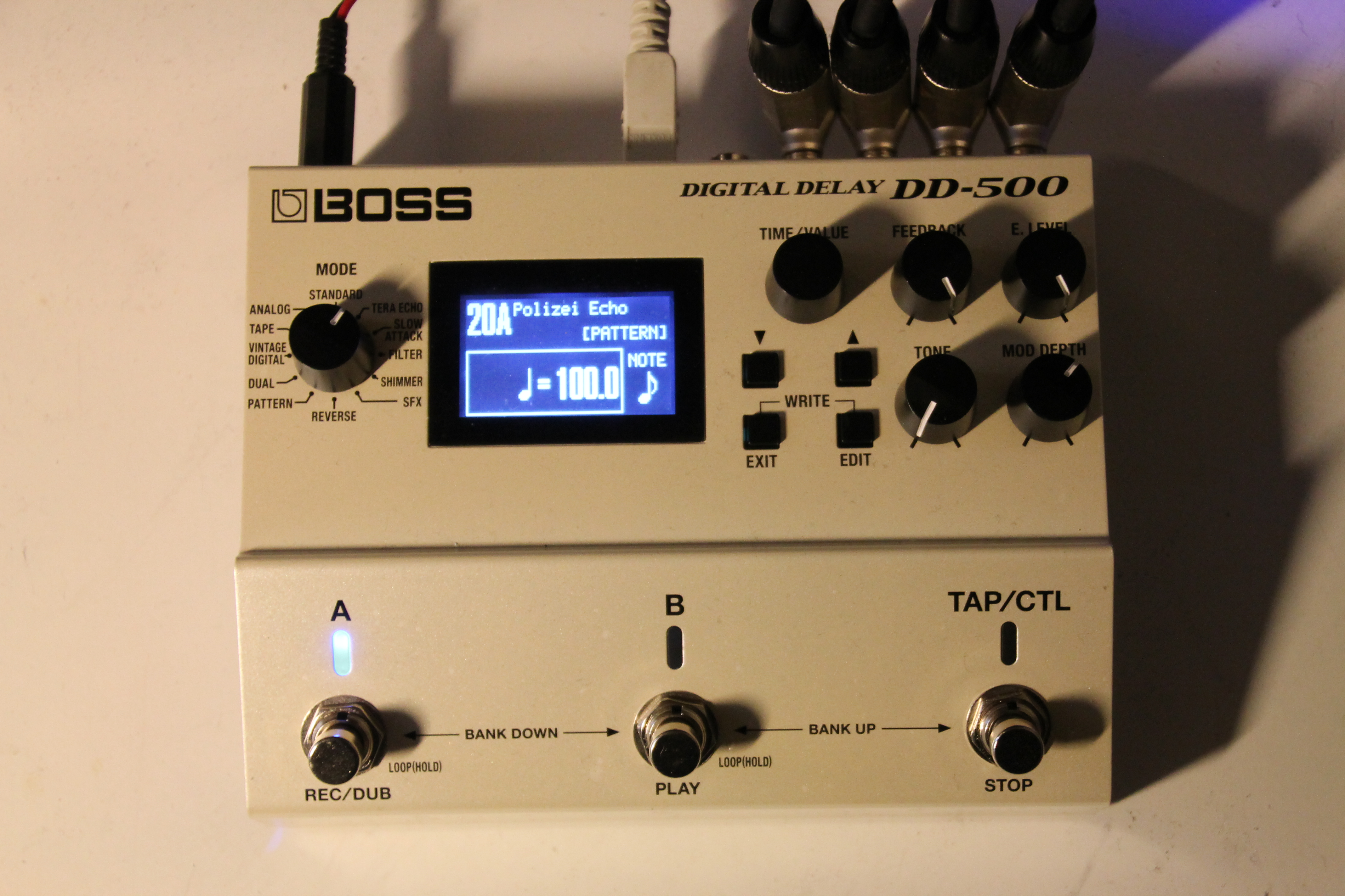 BOSS DD-500 -echo/delay multieffect.